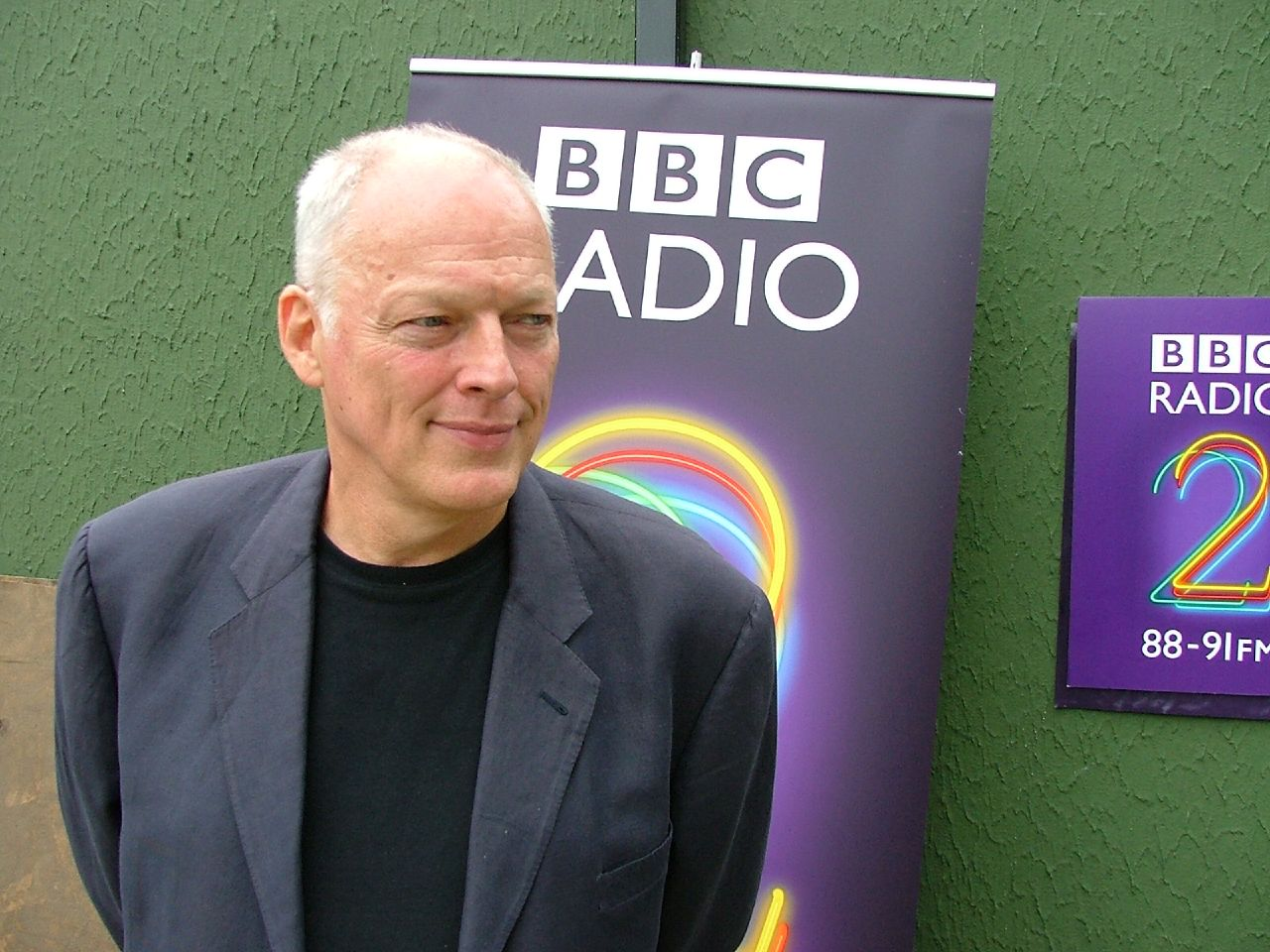 David Gilmour